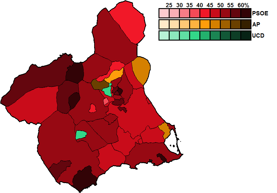 Most-voted party in Murcia municipalities, showing vote share obtained, in the Spanish general election, 1982.